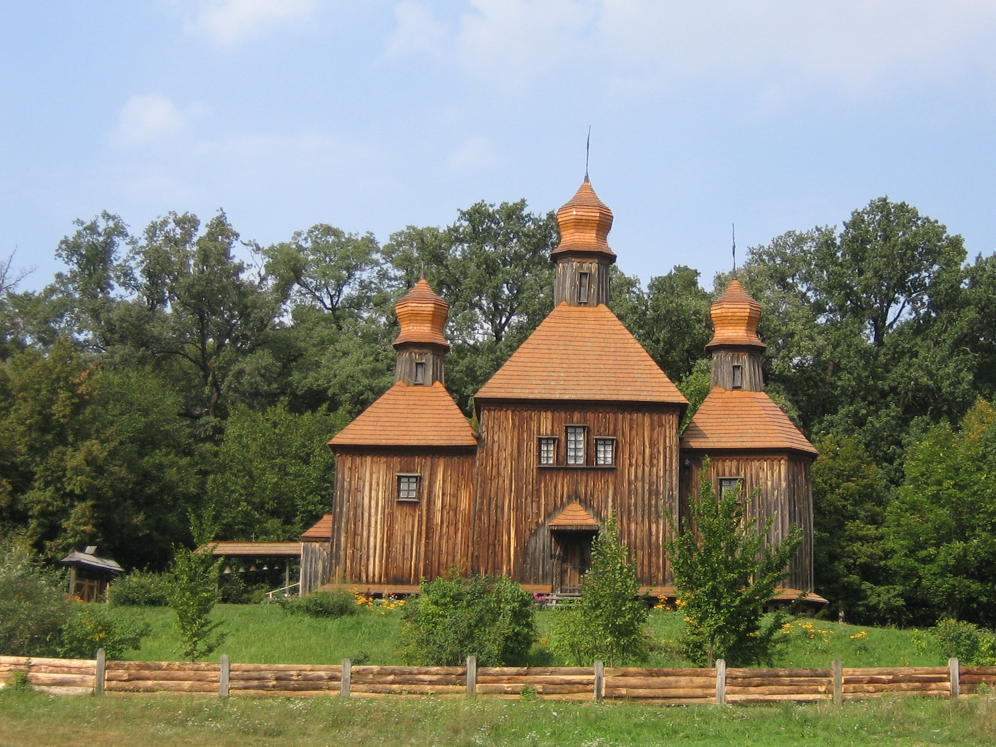 Museum of Folk Architecture and Ethnography in Pyrohiv near Kiev, Church of the Archangel Saint Michael, relocated from the village Dorohynka, Kiev oblast. Ukrainian Orthodox Church - (KP)